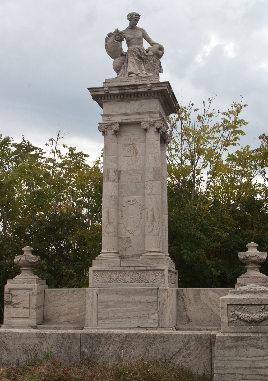 The Fallsway Fountain — in Baltimore, Maryland. Completed in 1915, it was designed by Theodore Wells Pietsch and Hans Schuler.